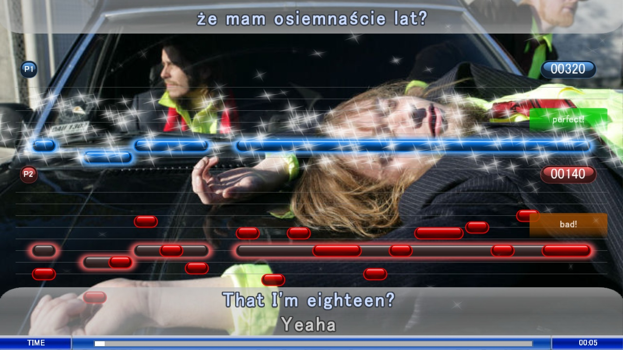 UltraStar 0.8.2 gameplay screenshot